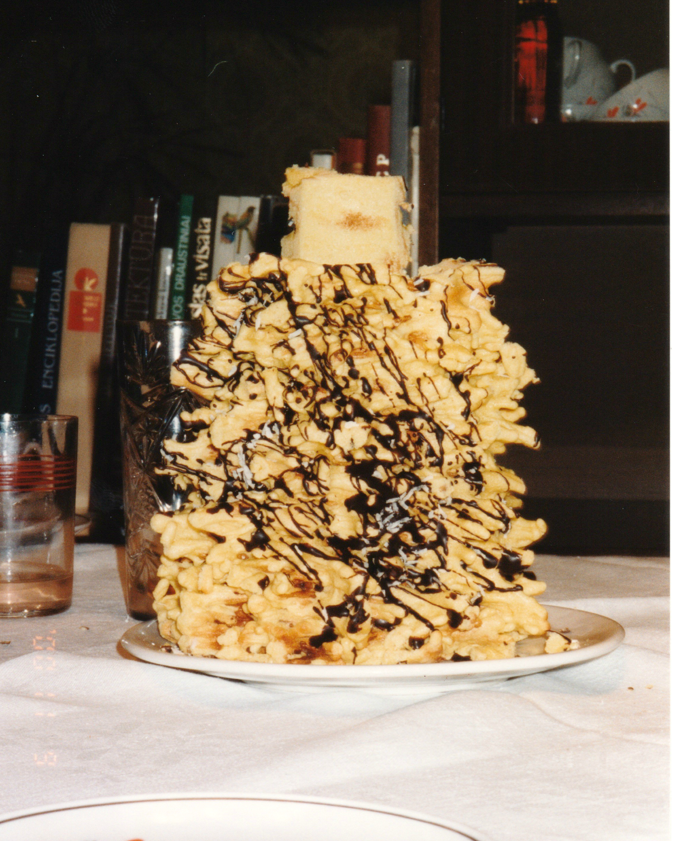 For Jim's 36th birthday, celebrated in Batneva, Lithuania.